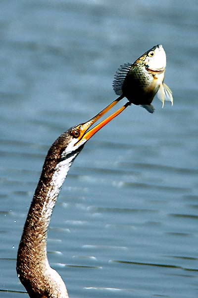 Darter with fish from Mysore, India